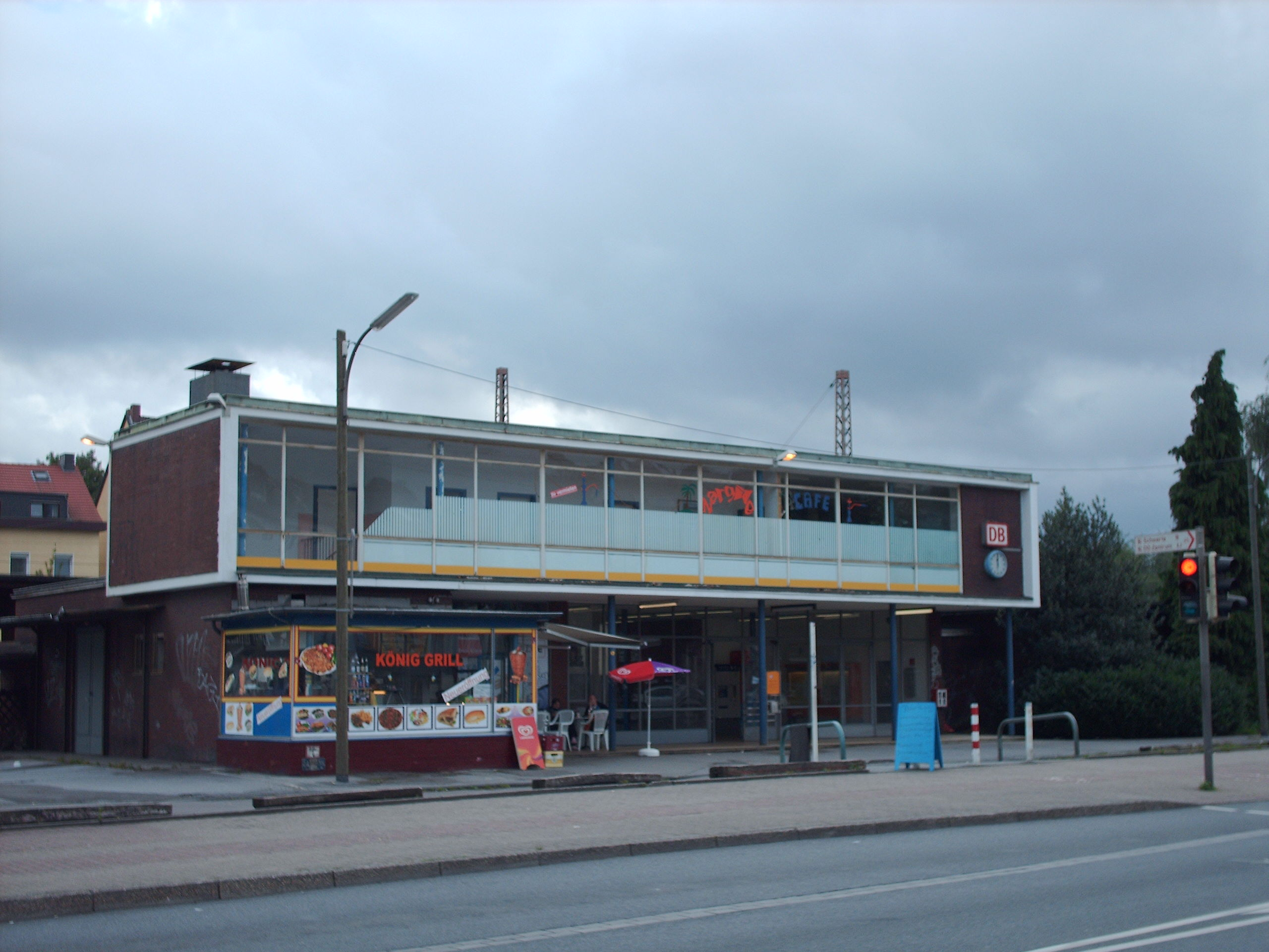 Hörde station, Dortmund, Germany check usage